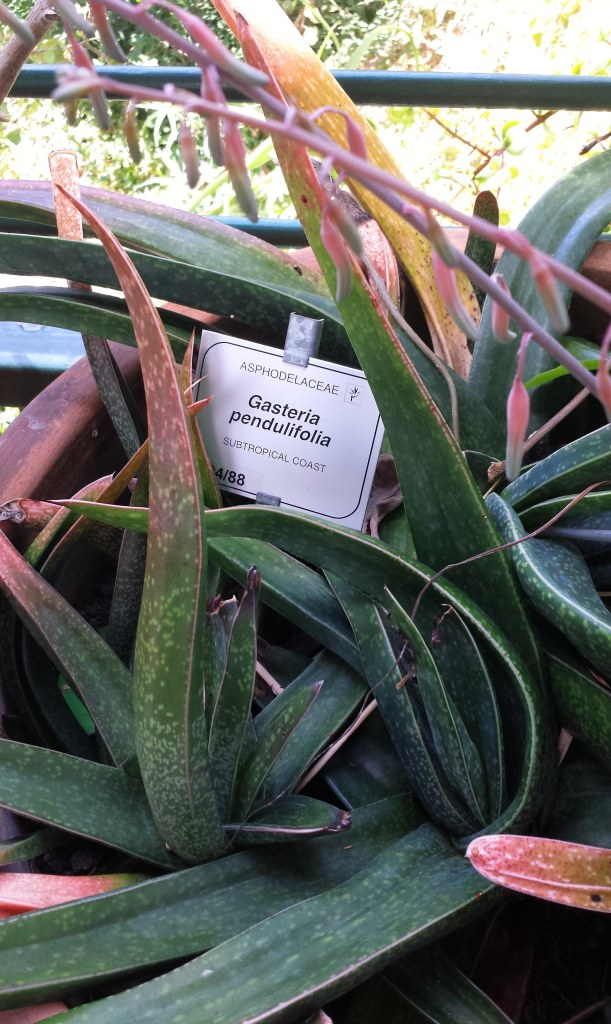 Gasteria pendulifolia or Gasteria croucheri subsp. pendulifolia - Kirstenbosch NBG